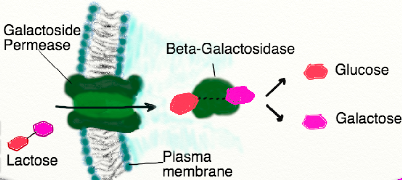 Image of beta-gal permease within the cell membrane